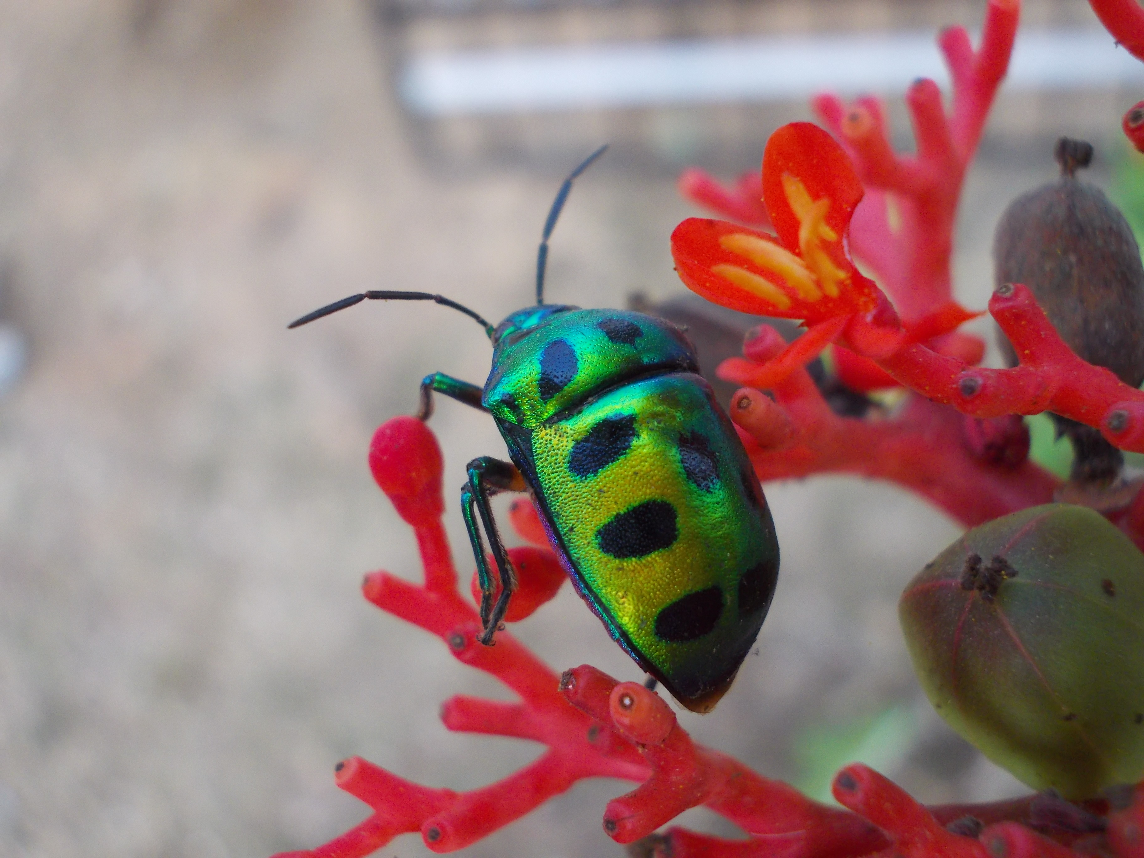 NAGZIRA WILDLIFE SANCTUARY, GONDIA DISTRICT, MAHARASHTRA